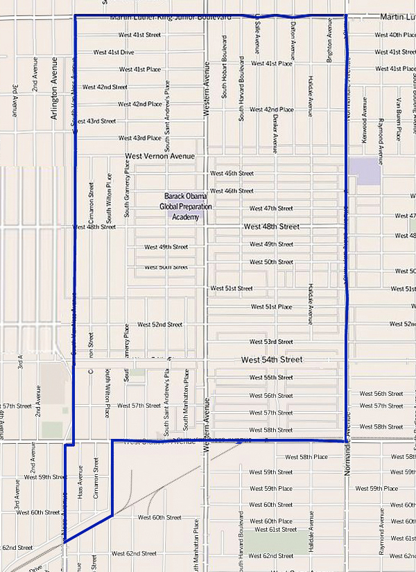 Map of Chesterfield Square Other information Note at bottom right of map on the L.A. Times website noted above says "CC-by-SA" (which gives permission to use the map). There is a link there to which explains the meaning thereof. The base map is credited to The Times spells all this out at